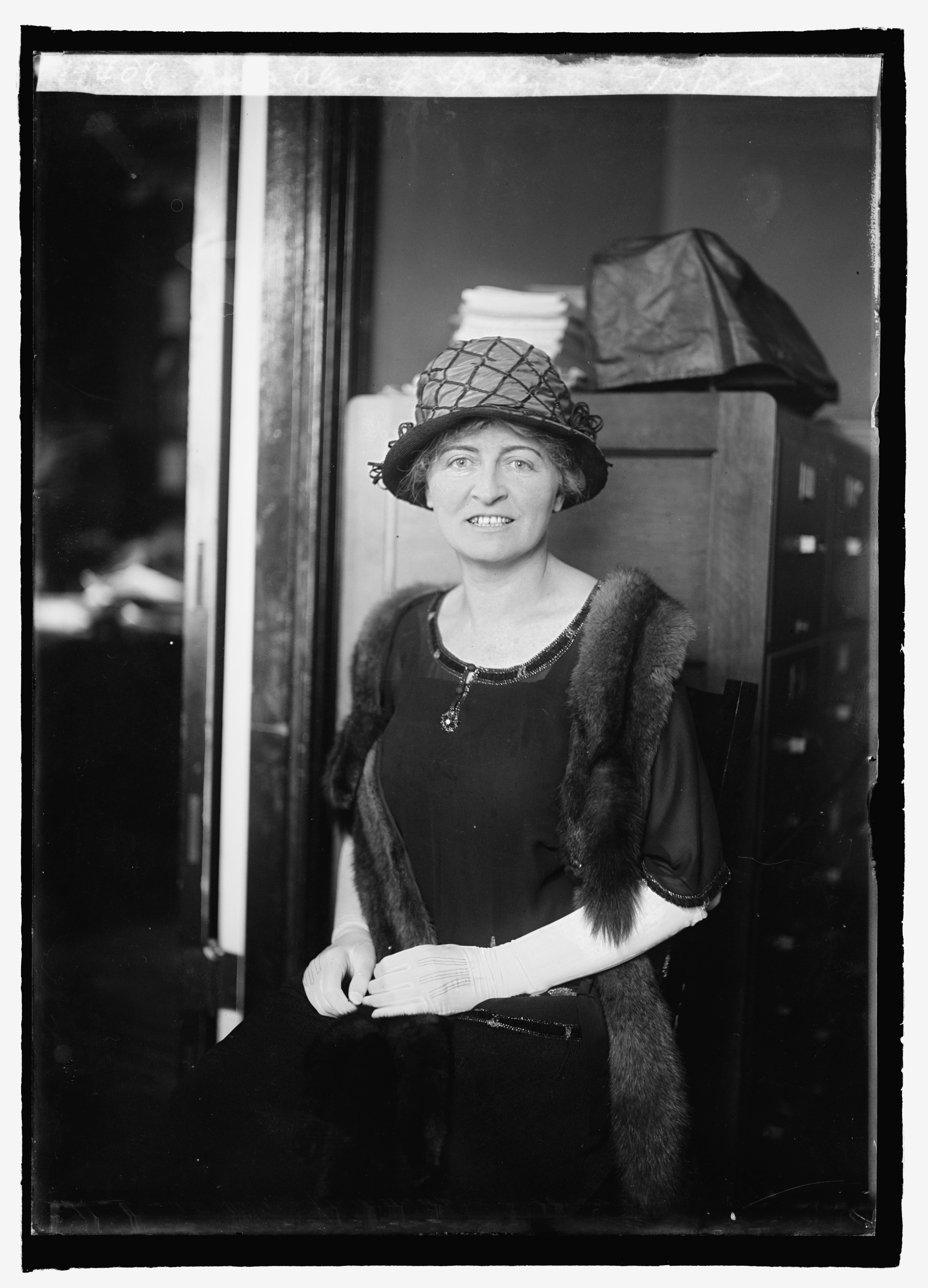 Title: Miss Alice L. Daly, 5/3/22 Abstract/medium: 1 negative : glass ; 5 x 7 in. or smaller